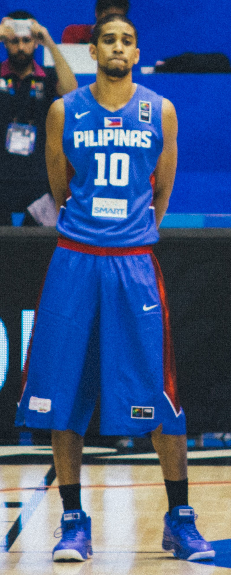 Gilas Pilipinas